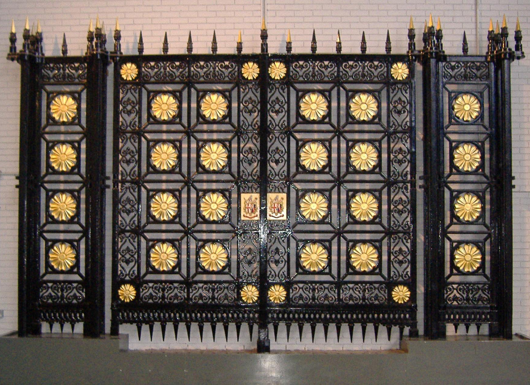 The gates from the Euston Arch, demolished in 1962. These gates are now at the National Railway Museum, York. Other similar gates from the station are in the care of the National Tram Museum.